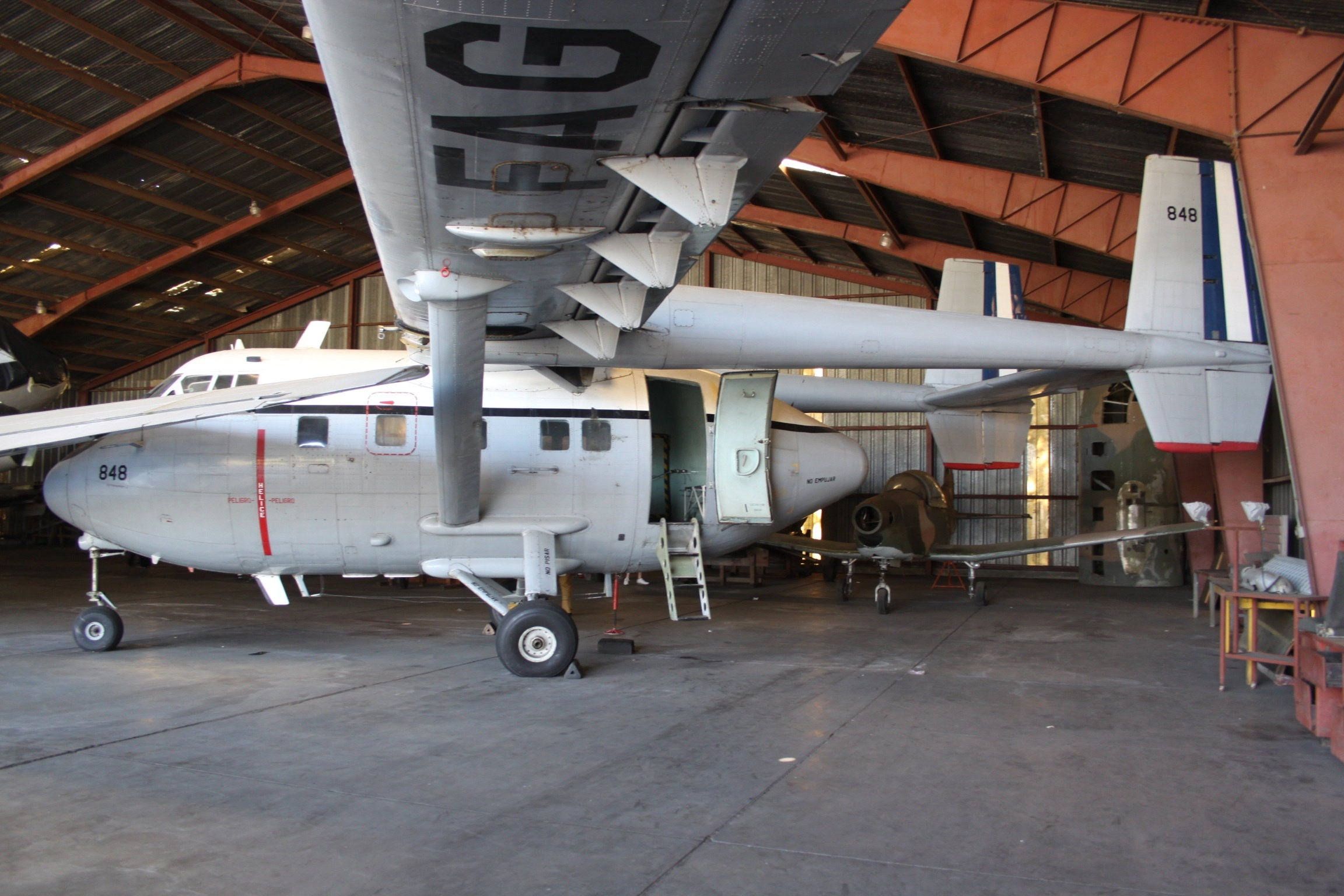 At Guatemala La Aurora International